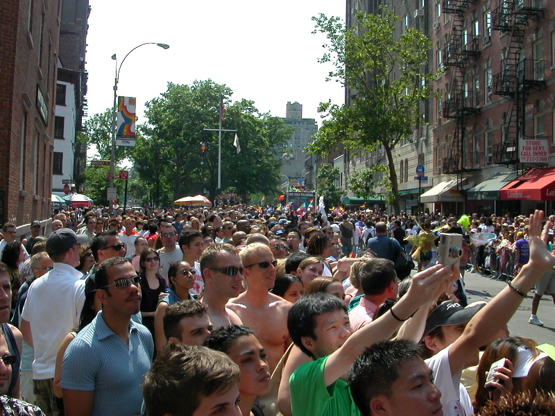 View of spectators along Christopher Street, New York City Gay Pride Parade, 2003.